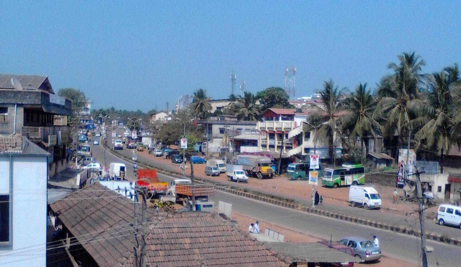 JPEG 512 KB